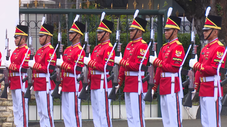 Indonesian honor guards from the Presidential Security Force (Paspampres) execute a Present arms